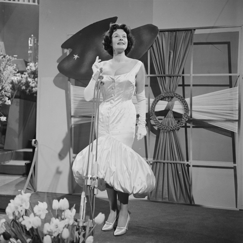 Margot Hielscher at the 1958 Eurovision Song Contest in Hilversum (rehearsal)